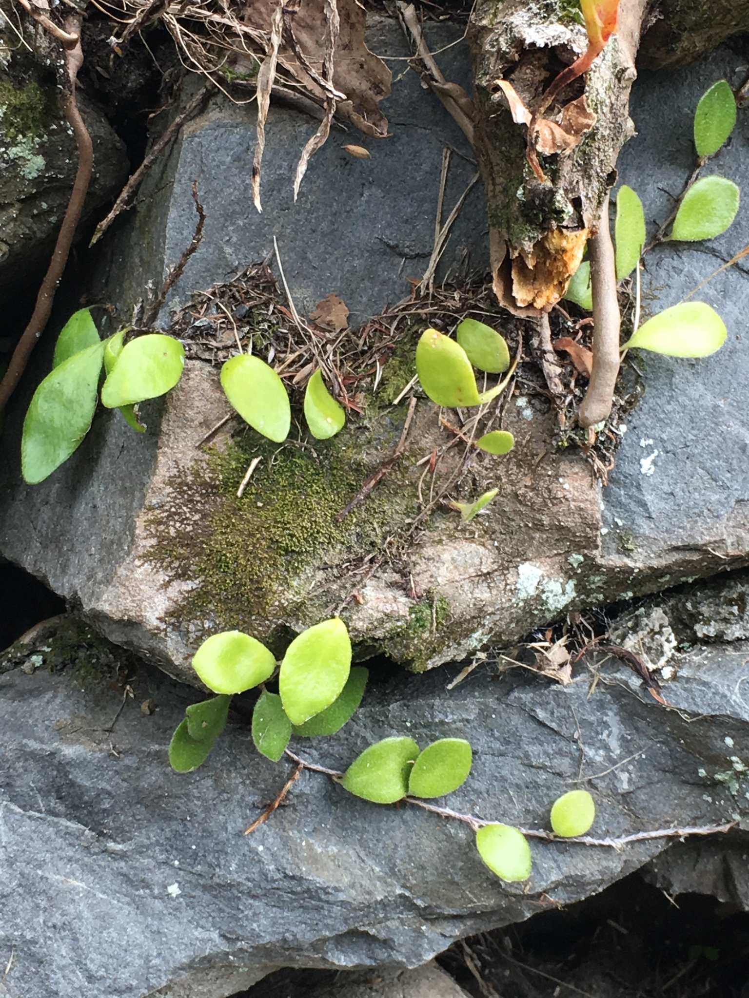 Pyrrosia eleagnifolia (Q7263780) by Tim Park (Q62777422) via iNaturalist at the Wellington Botanic Garden BioBlitz 2019 (Q62770398)